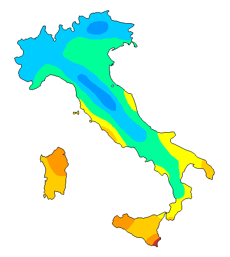 Map of daily sunshine hours in Italy in May